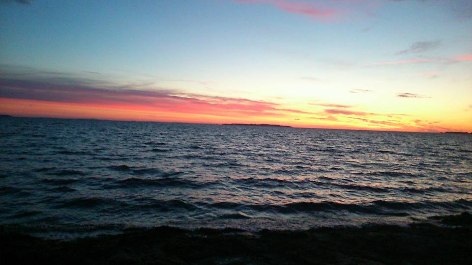 It a picture of Trand beach